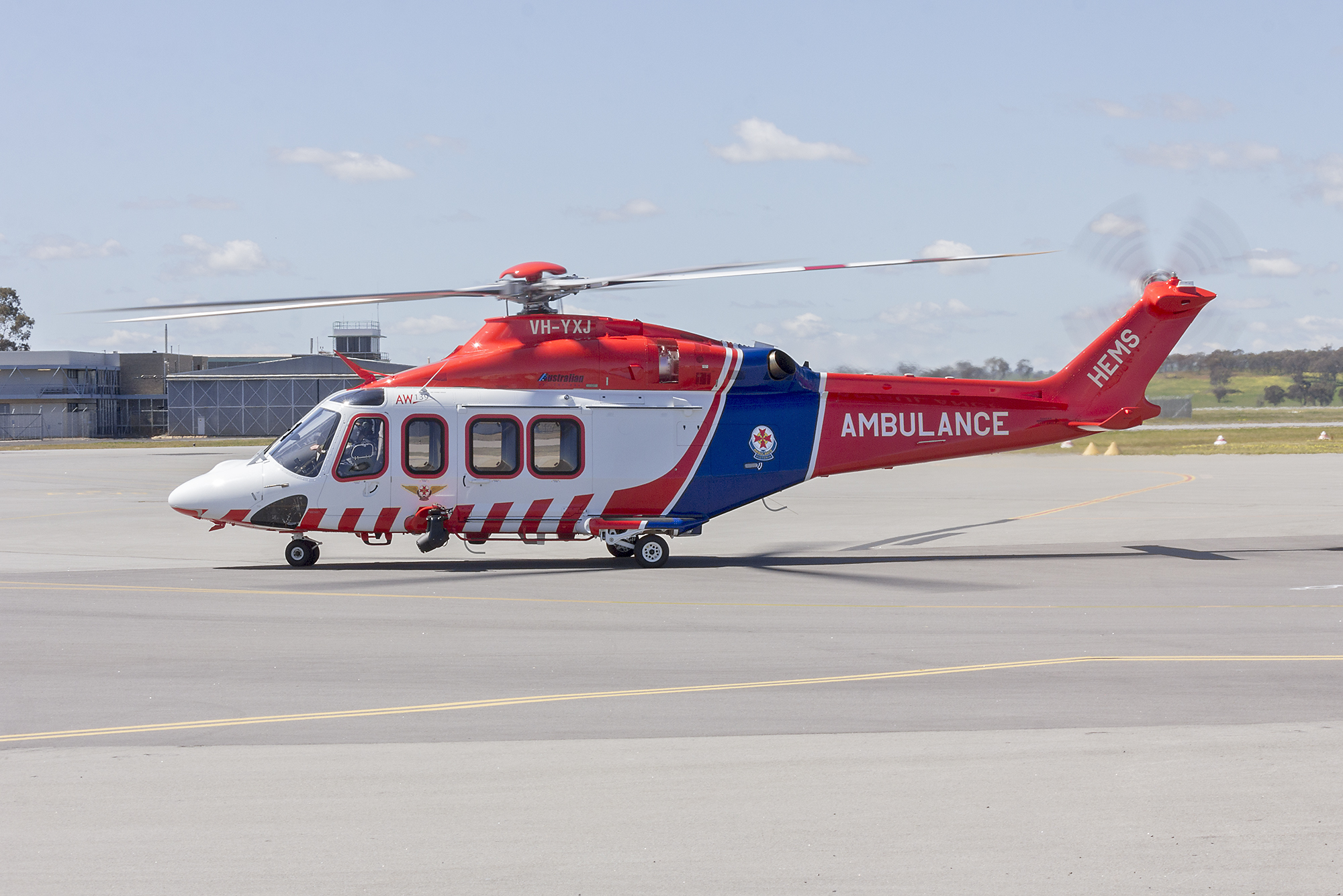 Australian Helicopters (VH-YXJ), operated for Ambulance Victoria, AgustaWestland AW139 taxiing at Wagga Wagga Airport.